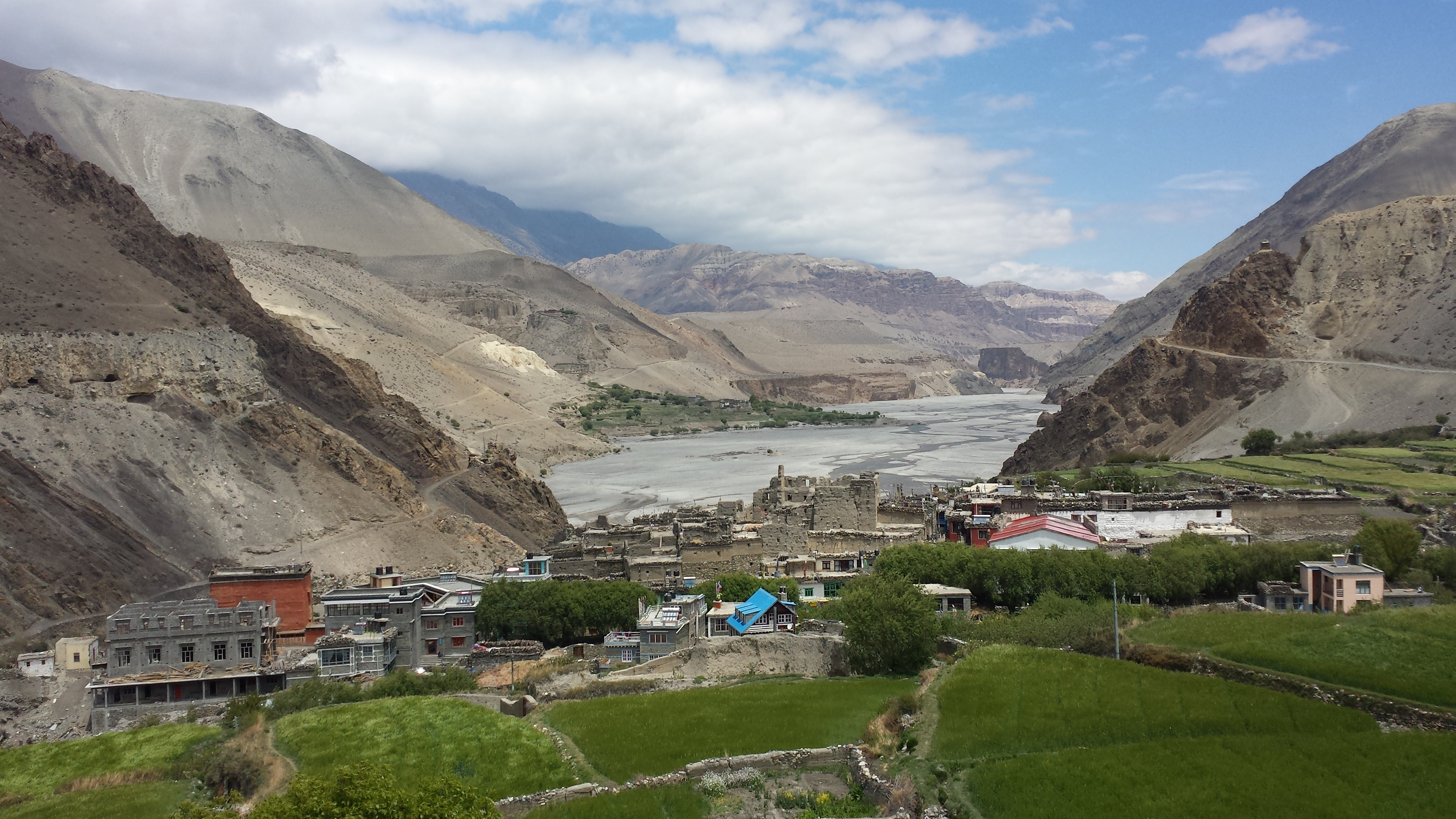 Mustang